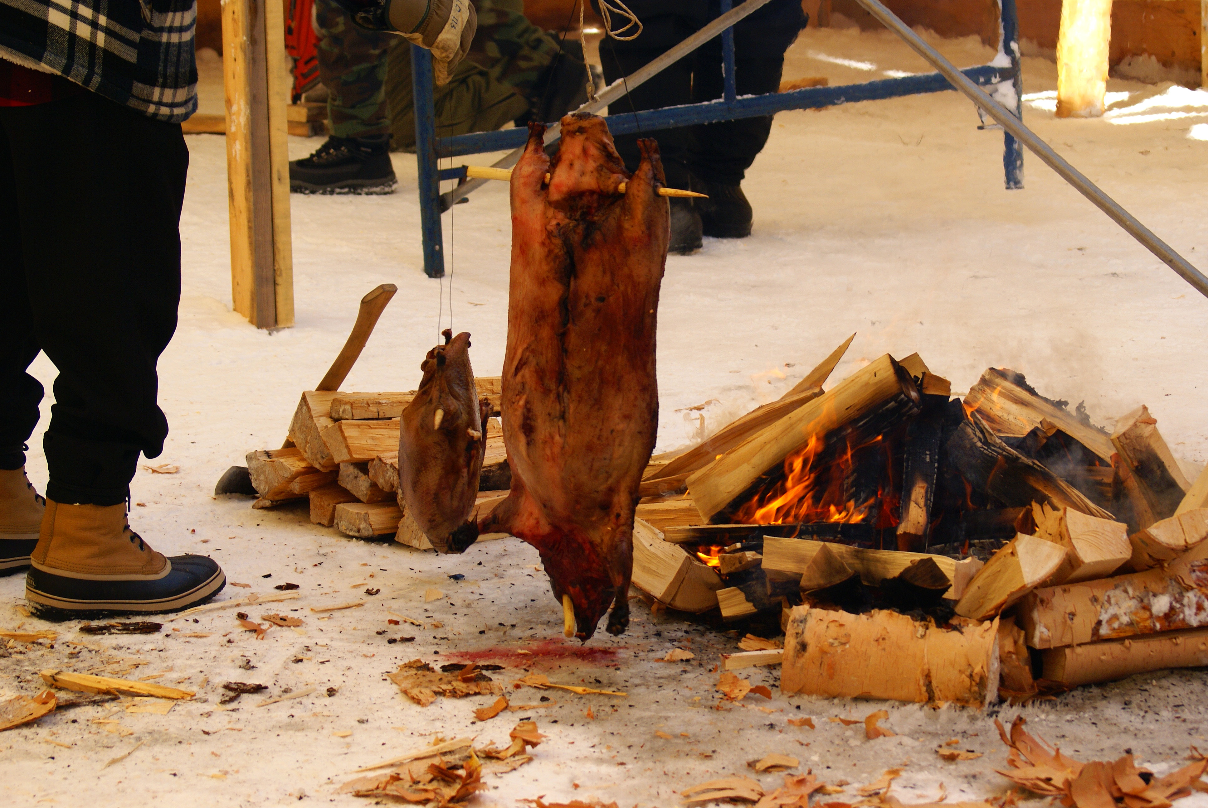 Cooking beaver over an open fire in Manawan, Quebec, Canada